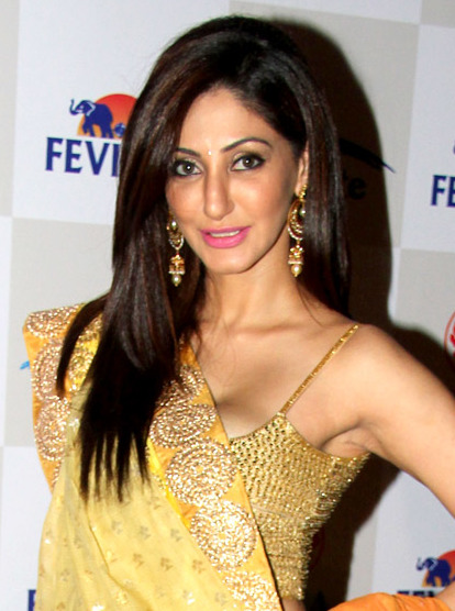 Reyhna Malhotra at the Cancer Patients Aid Association's fashion show by Shaina NC